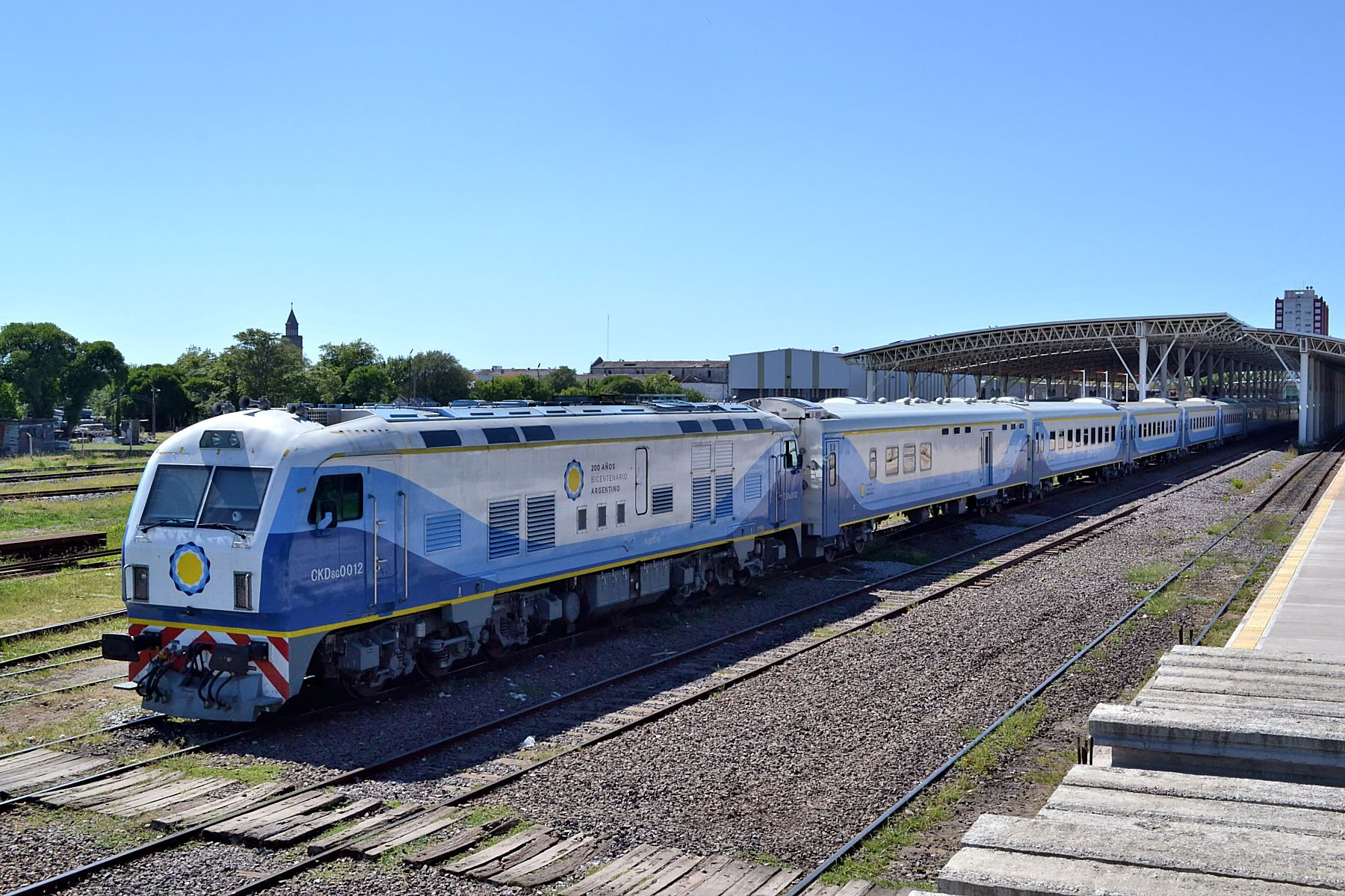 A SOFSE CNR CKD8 locomotive with carriages stationed outside Mar del Plata railway station.